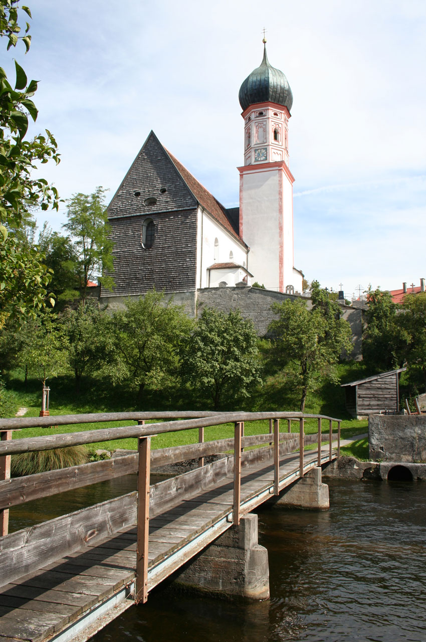 Sankt Agatha Kirche, Uffing, Bayern, from the River Ach.